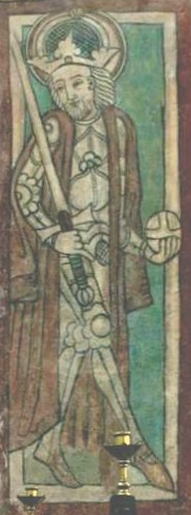 Al fresco painting of a king from the Cathedral of Århus, Denmark.